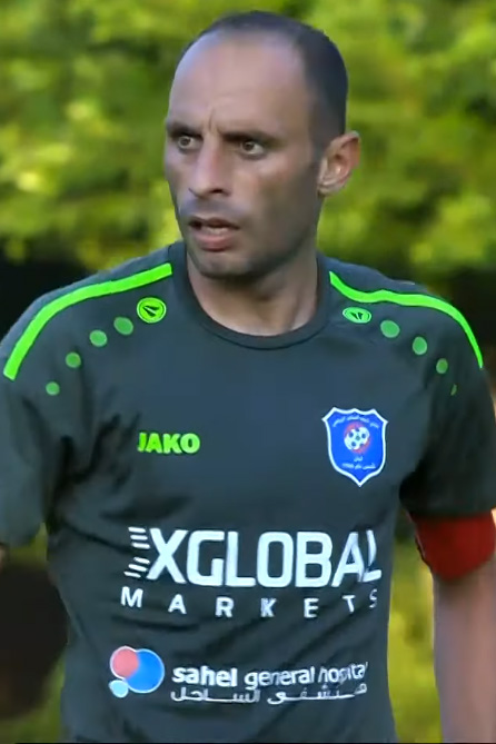 Zouhair Abdallah with Shabab Sahel against Shabab Ghazieh during the 2019-20 Lebanese Premier League